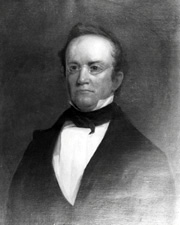 John Wales (July 31, 1783 - December 3, 1863) was an American lawyer and politician from Wilmington, in New Castle County, Delaware